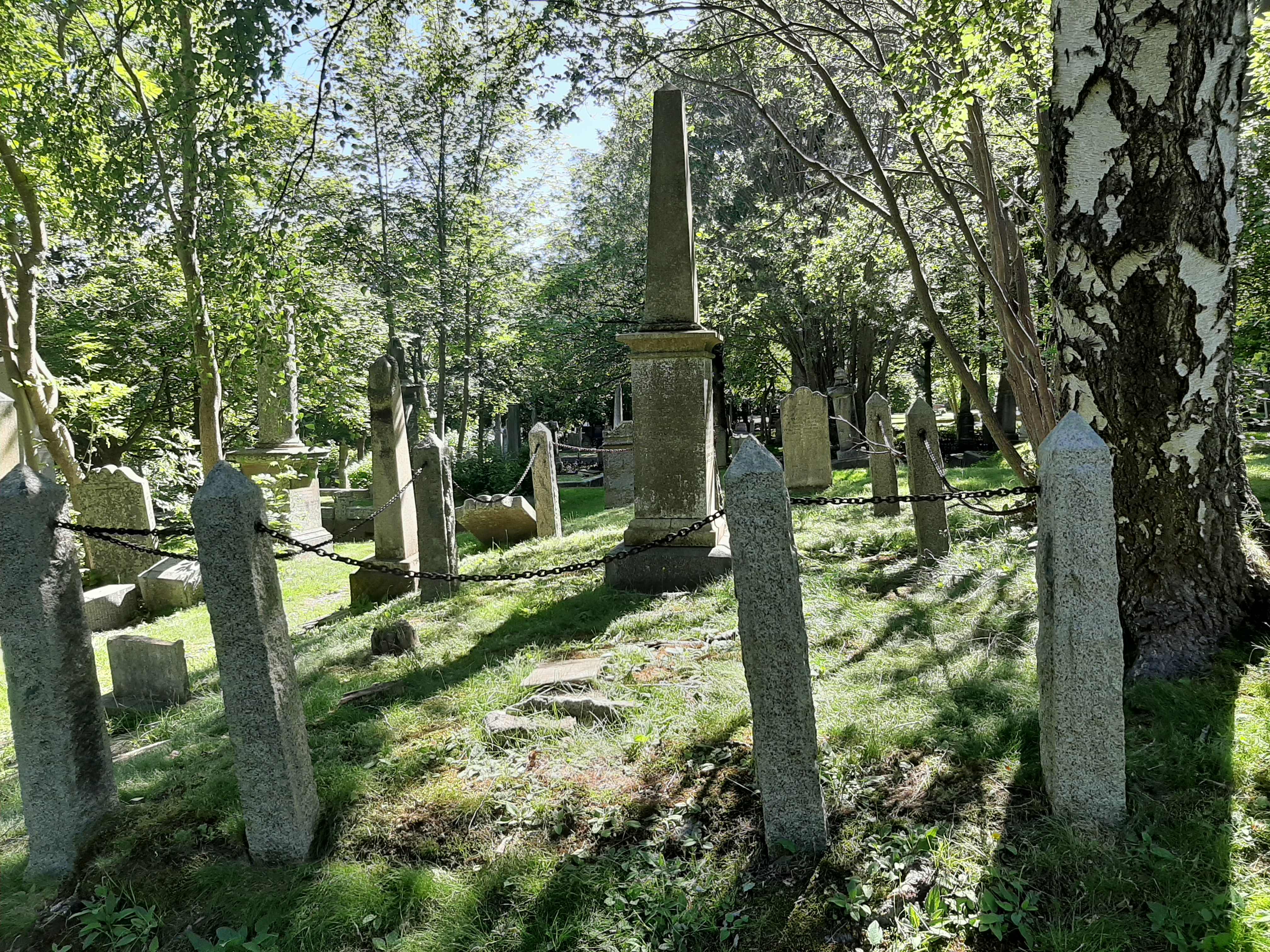 Rogerson Vault at the General Protestant Cemetery in St. John's, Newfoundland and Labrador. Photo by Katie Crane.